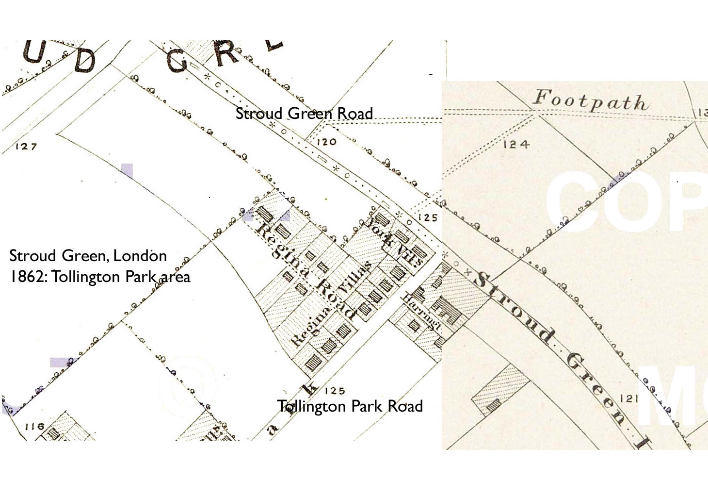 For more information about this area see the Wikipedia pages about Stroud Green This map is taken from Edward Stanford's 24 plate 6 inch to the mile Library Map of London & Its Suburbs, which was first published in 1862. N.B. The present-day street names are given in Gill Sans type.